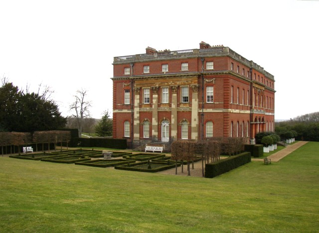 Clandon Park House, West Clandon. Clandon Park was purchased by Sir Richard Onslow in 1641 and the family have lived in the park ever since. The house was rebuilt in the 1720s. By the 20C the upkeep was beyond the family, and it was presented to the national Trust in 1956. The 7th Earl lives in a smaller house in the park. Clandon Park House is in the Palladian style, an austere classicism. The photograph shows the south front, and the formal parterre of box hedges.